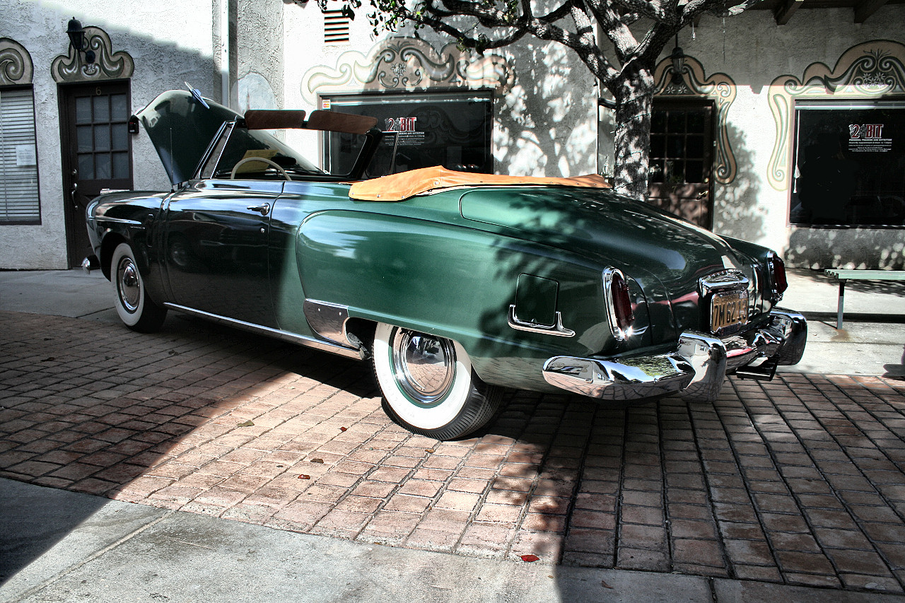 1950 Studebaker Commander cnv Studebakers @ Old World Village, Huntington Beach